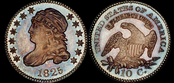 Image of a Capped Bust dime. Original images obtained from , specifically Combined into one image with Photoshop.